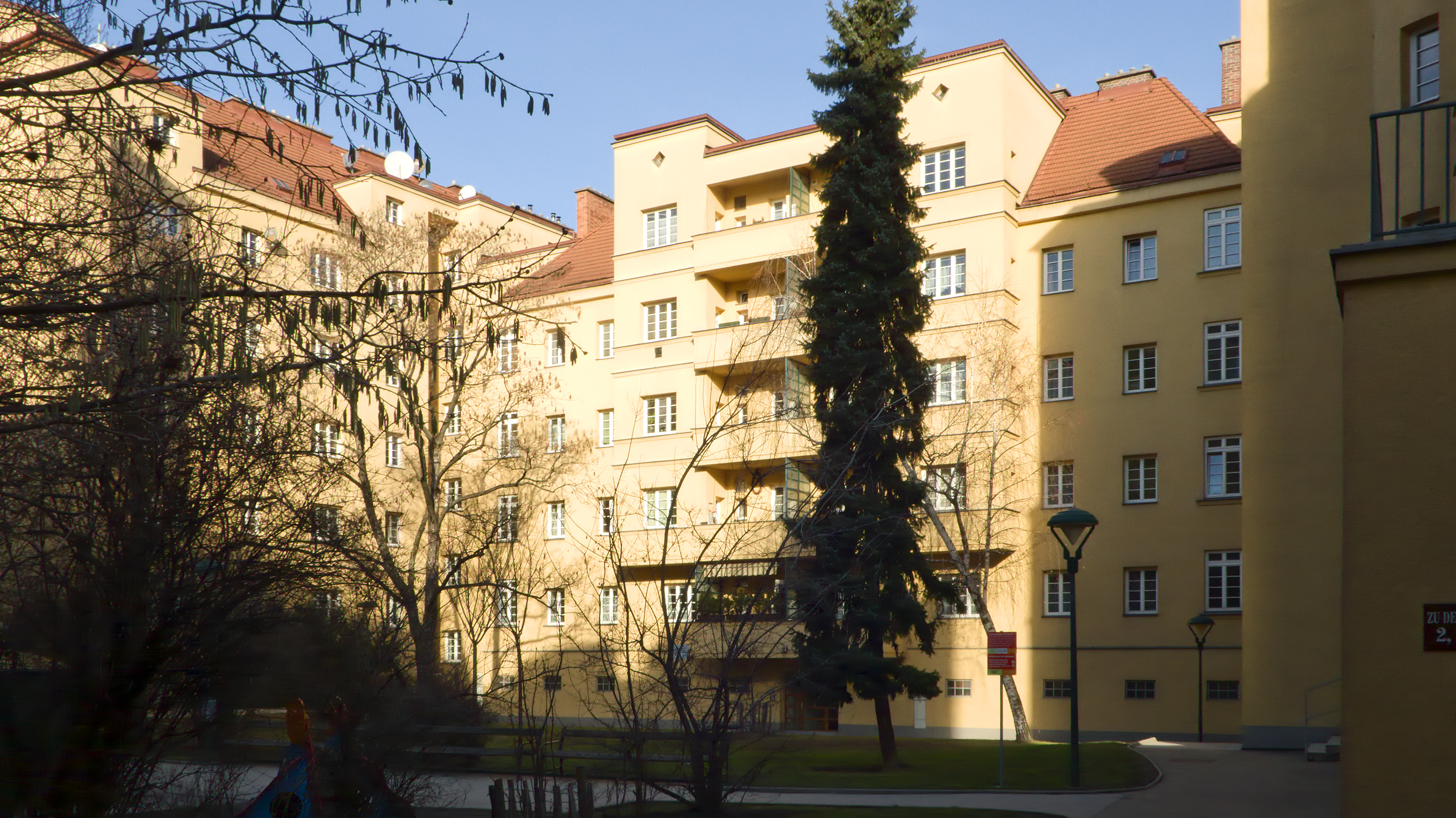 Ditteshof in Vienna Döbling